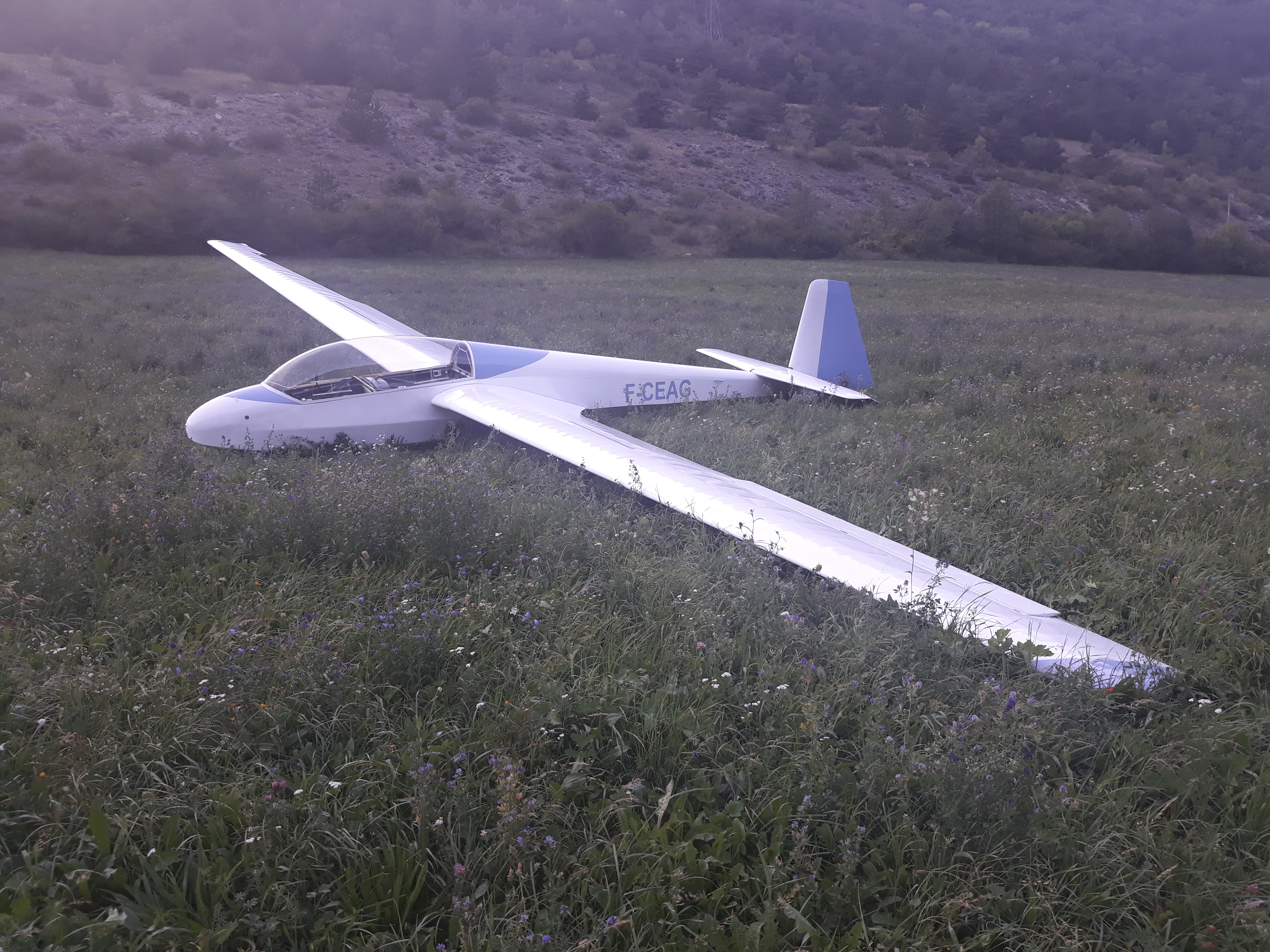 An ASK 13 glider which has performed an outlanding in St Clément sur Durance in the French Alps.